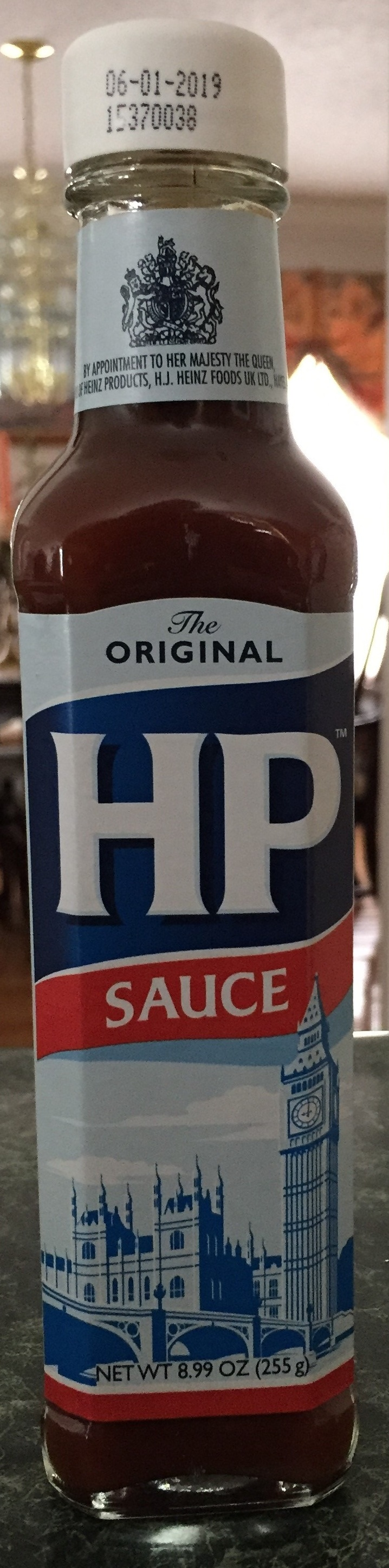 Bottle of Original HP Sauce